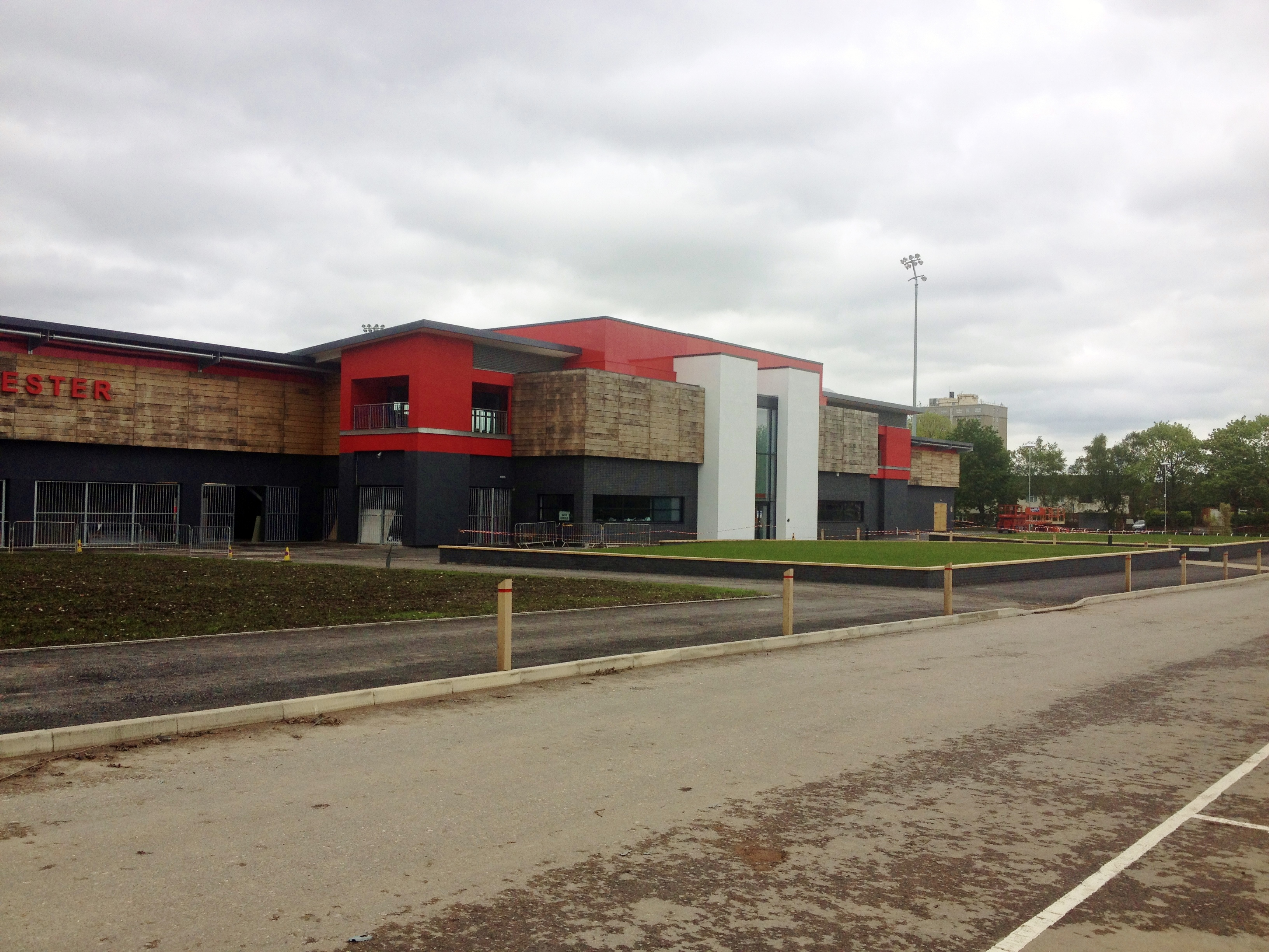 Broadhurst Park – front.